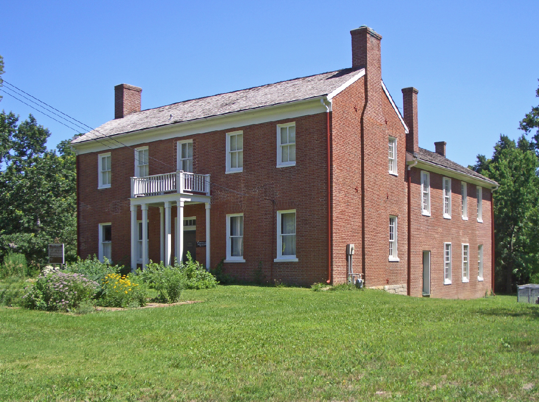 Shawnee Methodist Mission, West Building, National Historic Landmark, Fairway, Kansas